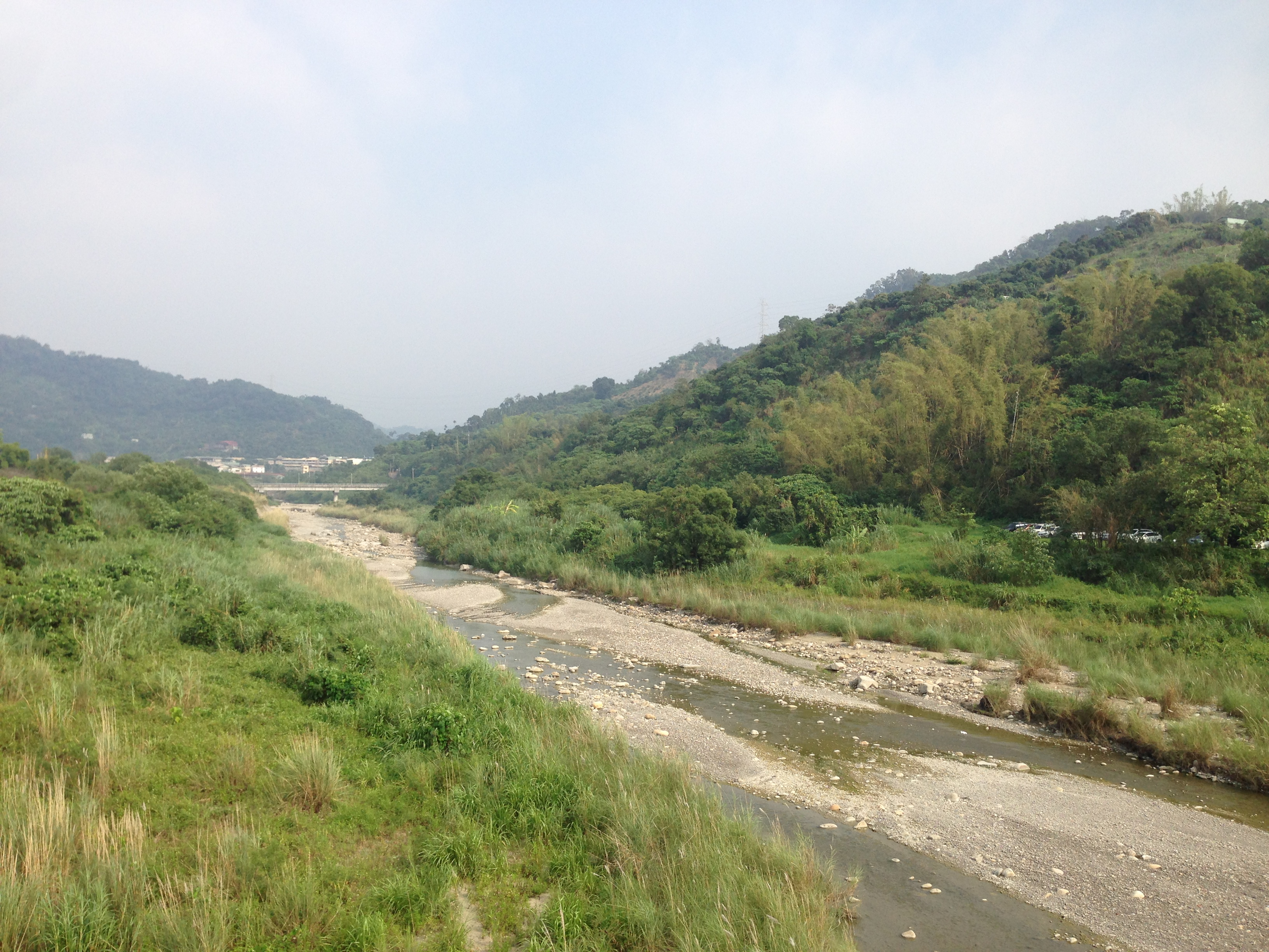 Looking upstream on the Caohu River toward the Jianmin Bridge, as seen from the Yinlian Bridge. The Chelungpu fault line passes through here. However, the fault has been exposed to river erosion for a long time and the sides of the river were terribly overgrown with weeds, and now it may be hard to see.